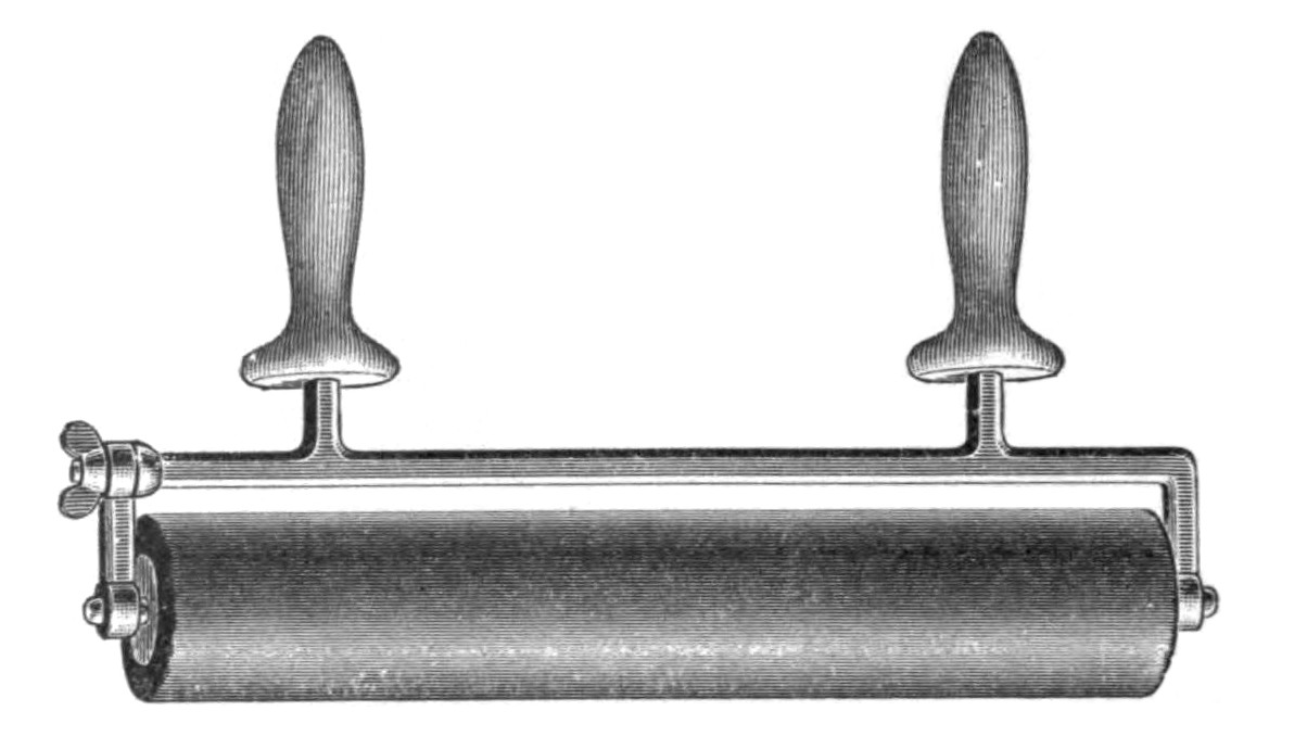 Two-handled composition hand roller, used for inking a printing press in letterpress printing. (Cropped and cleaned up from original source)